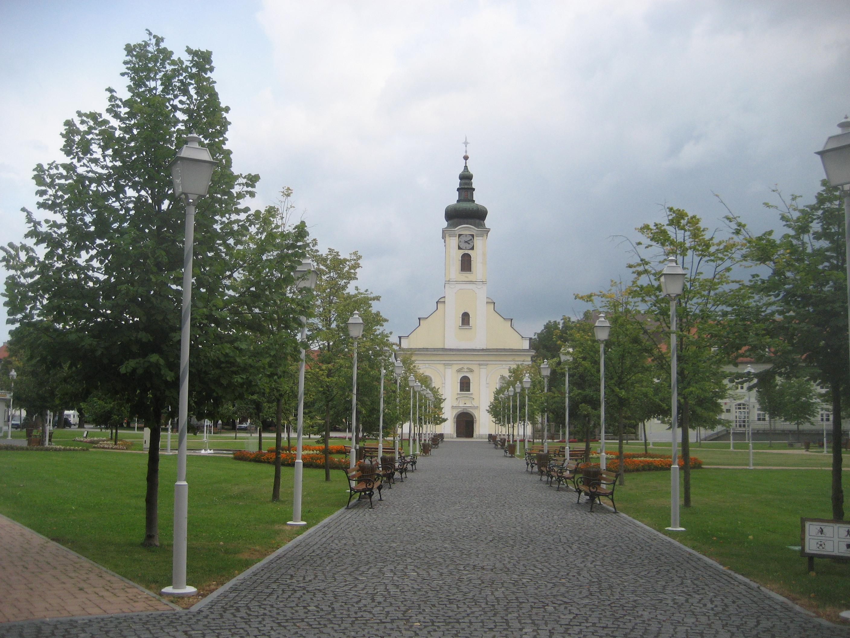 Ogulin